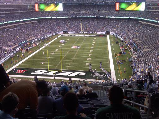 New Meadowlands Stadium before the first-ever preseason game played in New Meadowlands Stadium between the New York Giants and the New York Jets on August 16, 2010.